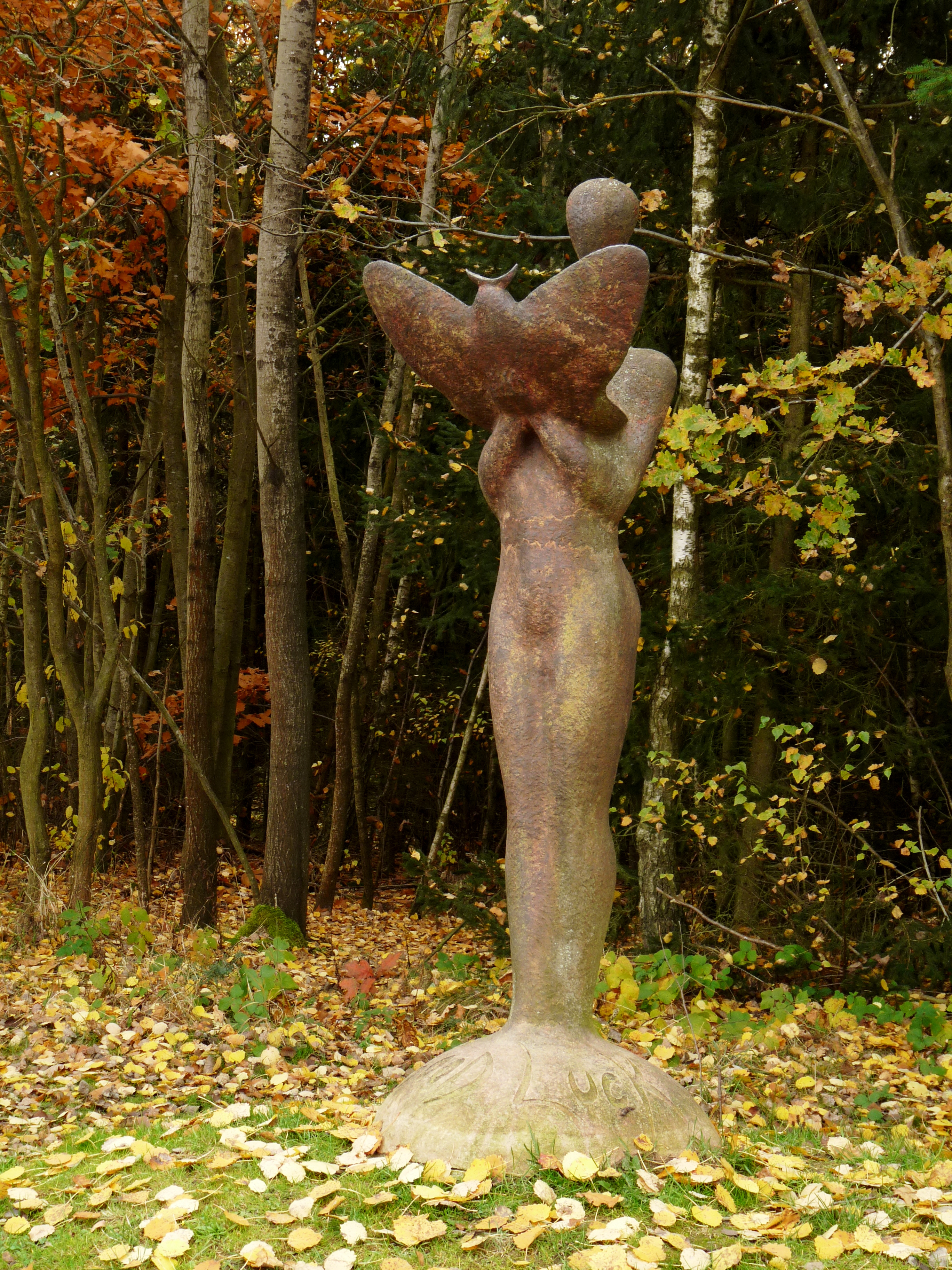 US pilot Raymond F. Reuter's memorial near the village of Boršov nad Vltavou, České Budějovice District, South Bohemian Region, Czech Republic.